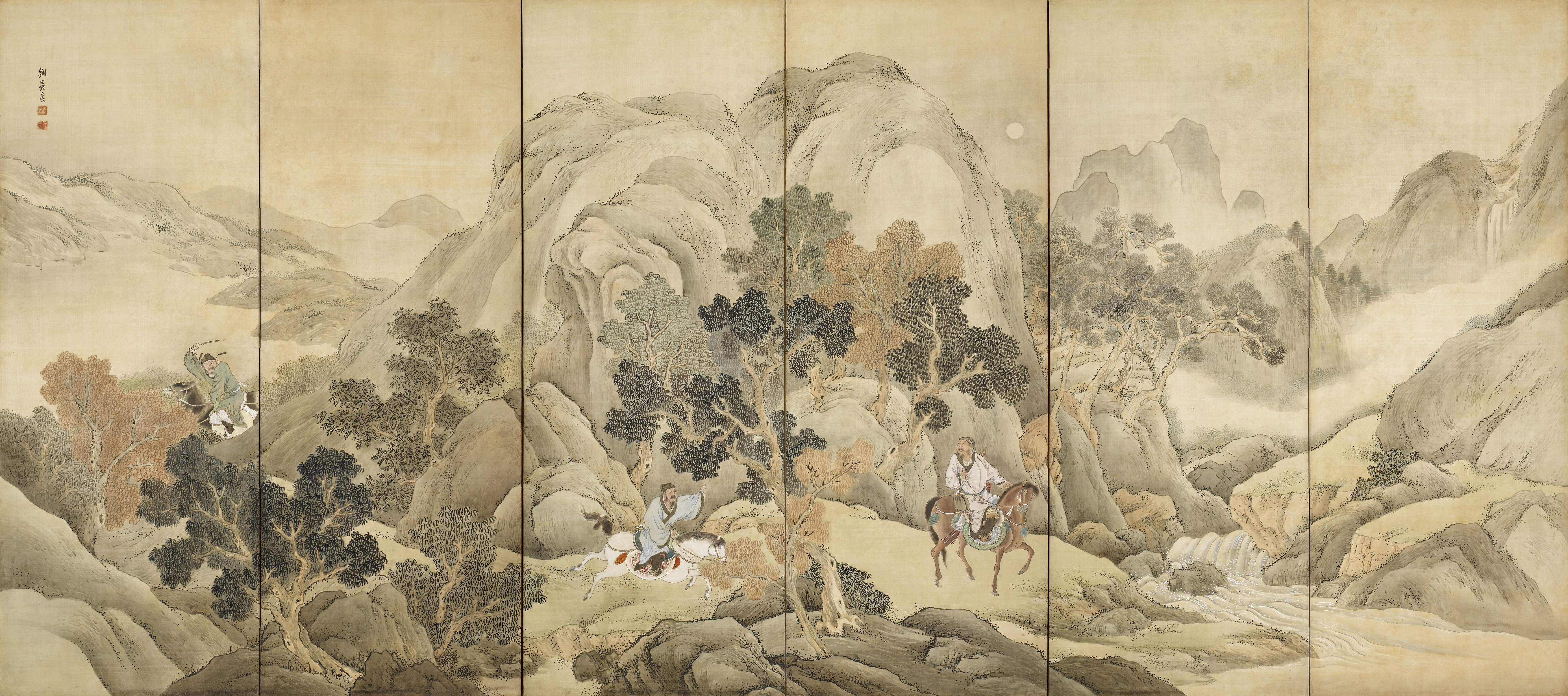 Xiao He chases Han Xin, folding screen by Yosa Buson, Nomura Art Museum, Kyoto, Kyoto, Japan